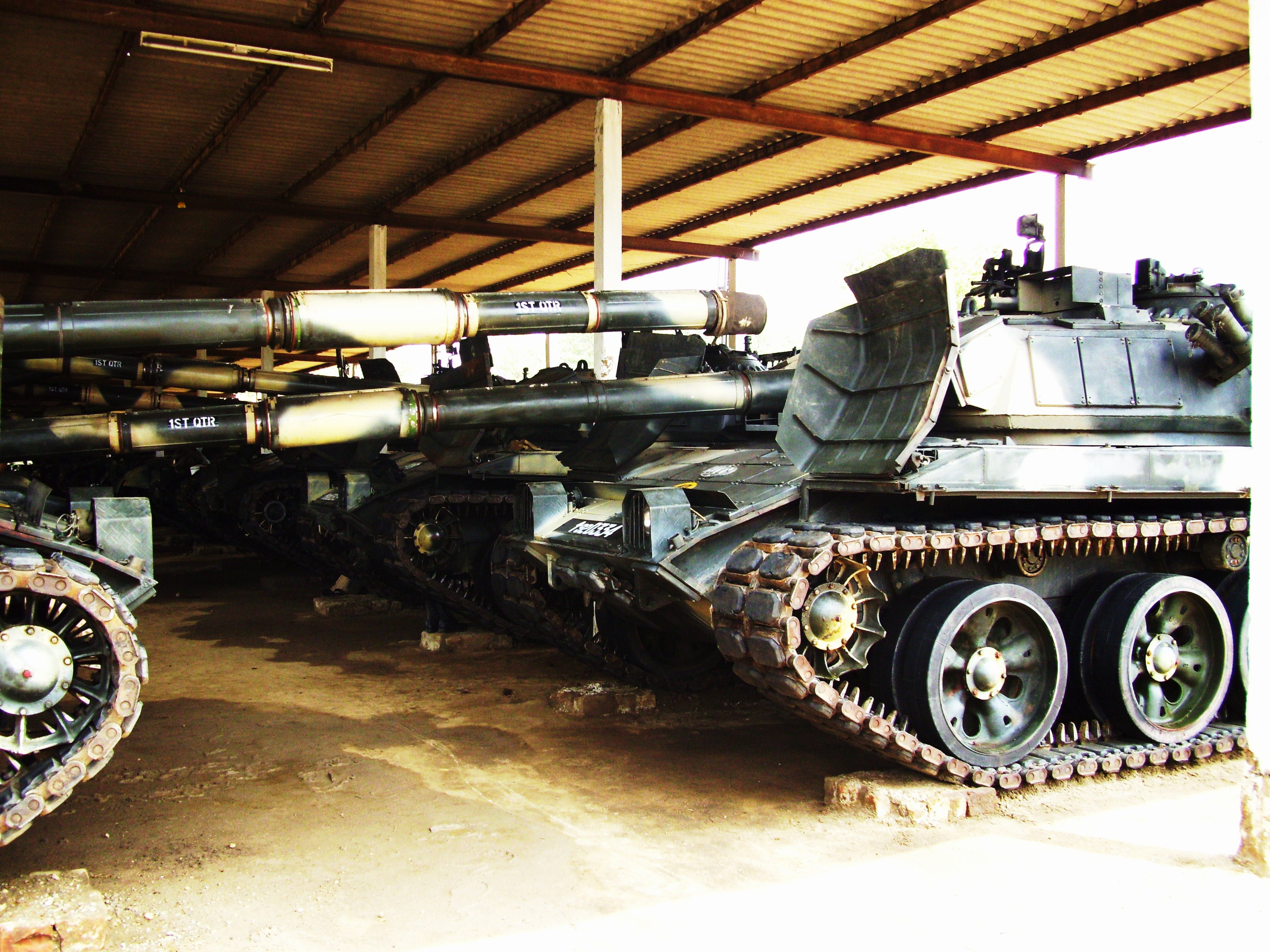 Al zarar compound